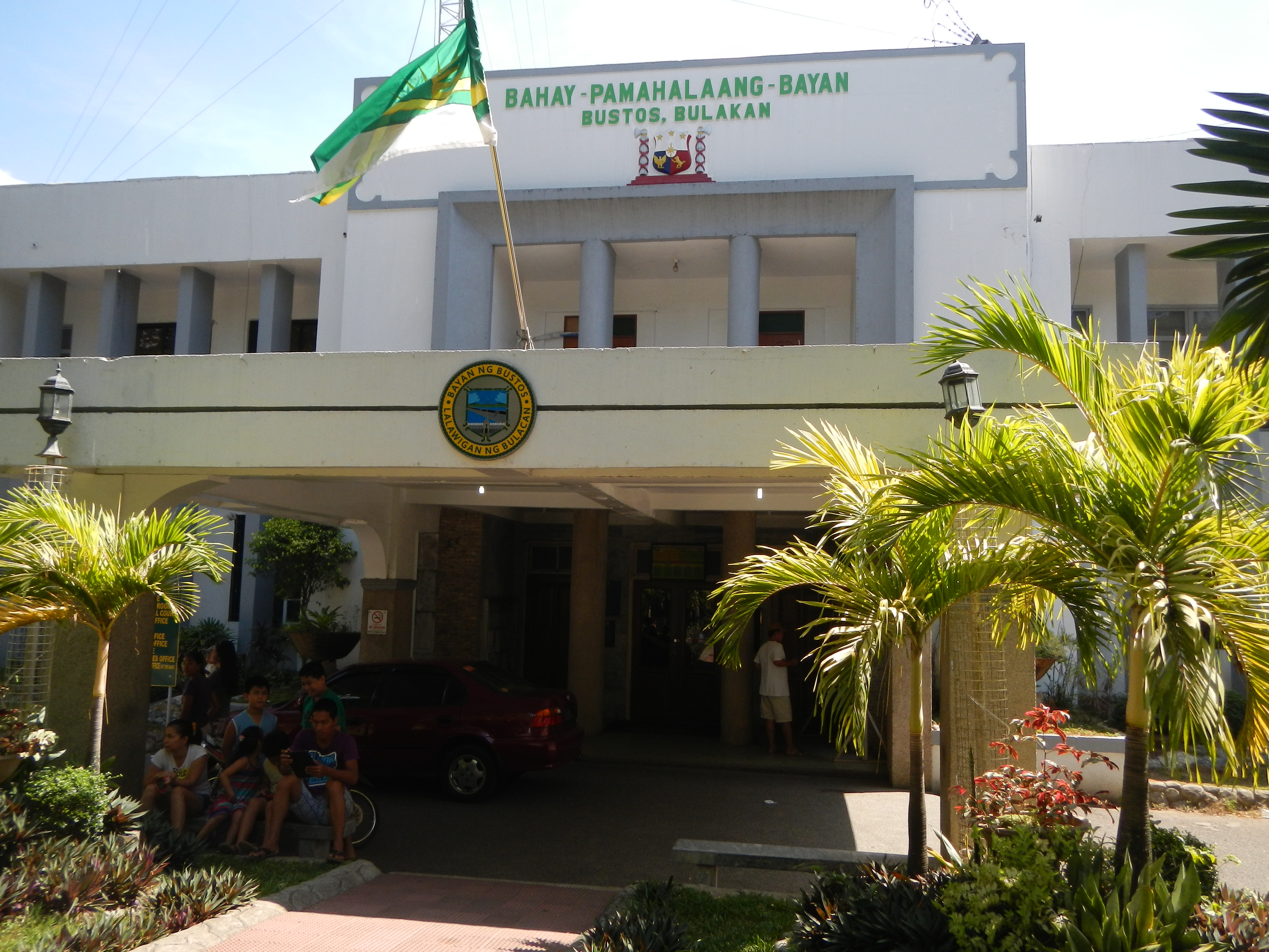 The Bustos Municipal Hall in Bulacan Complex, Compound is inside the "Letras y Figuras de Bustos in Bulacan", April 7, 2014: includes the Arc of Freedom, 1998, Roll of Honor of Bustos Heroes and Martyrs, Bustos Museum and Library, Bustos Park, Barangay Poblacion Proper Hall, Bulacan Military Area, ECLGA Monument, Memorial, Dr. Pablito V. Mendoza Multi-Purpose Gymnasium, Tennis Court, Community Hospital, Paraiso ng mga Bata, Princess of Nutrition '99 Marker, Conrado C. Mercado Marker and Sculptures, Hall of Barangay Affairs, oldest Balite Tree, along General Alejos Santos Highway).